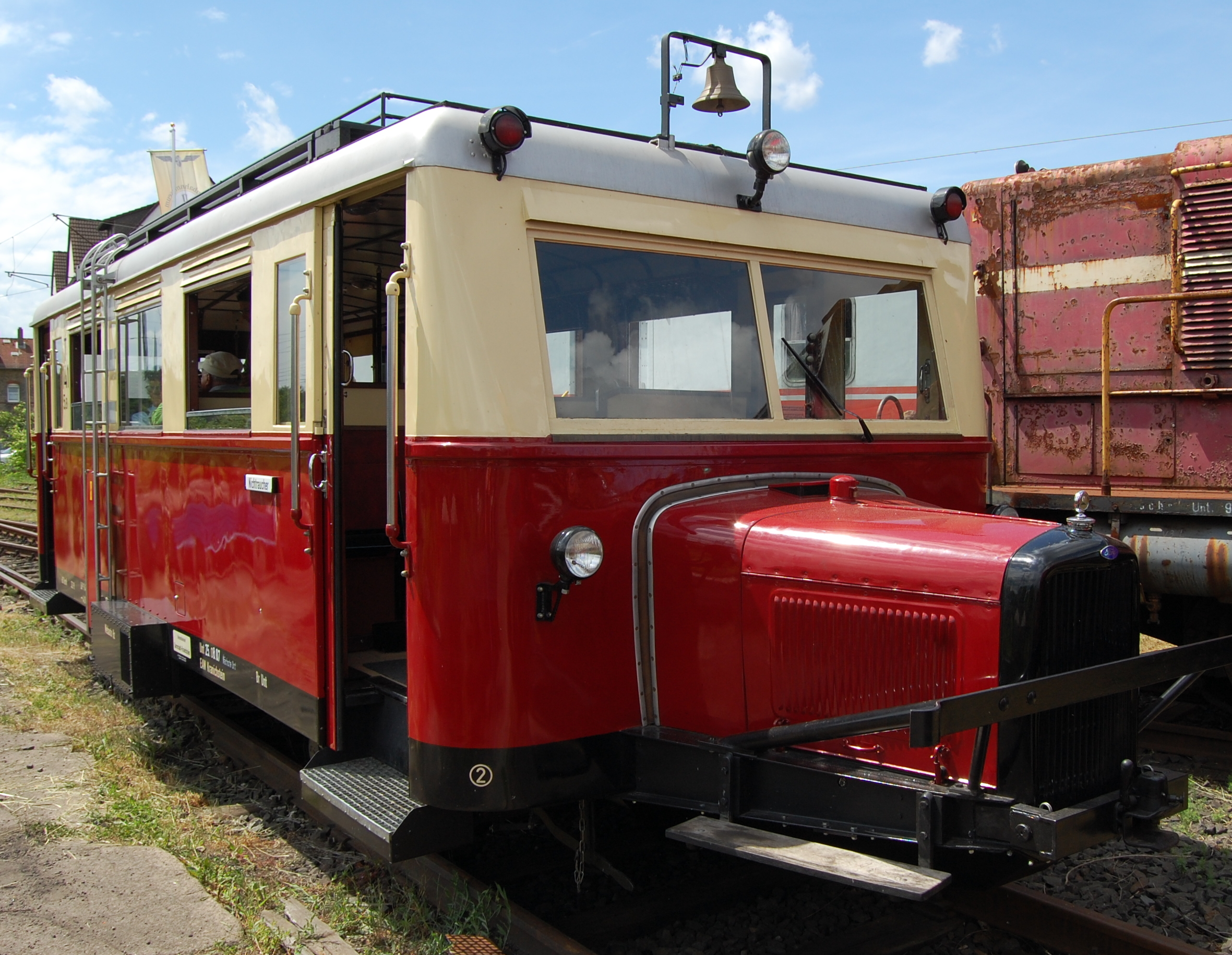 rail car T 141 of Waggonfabrik Wismar, Germany built in 1933